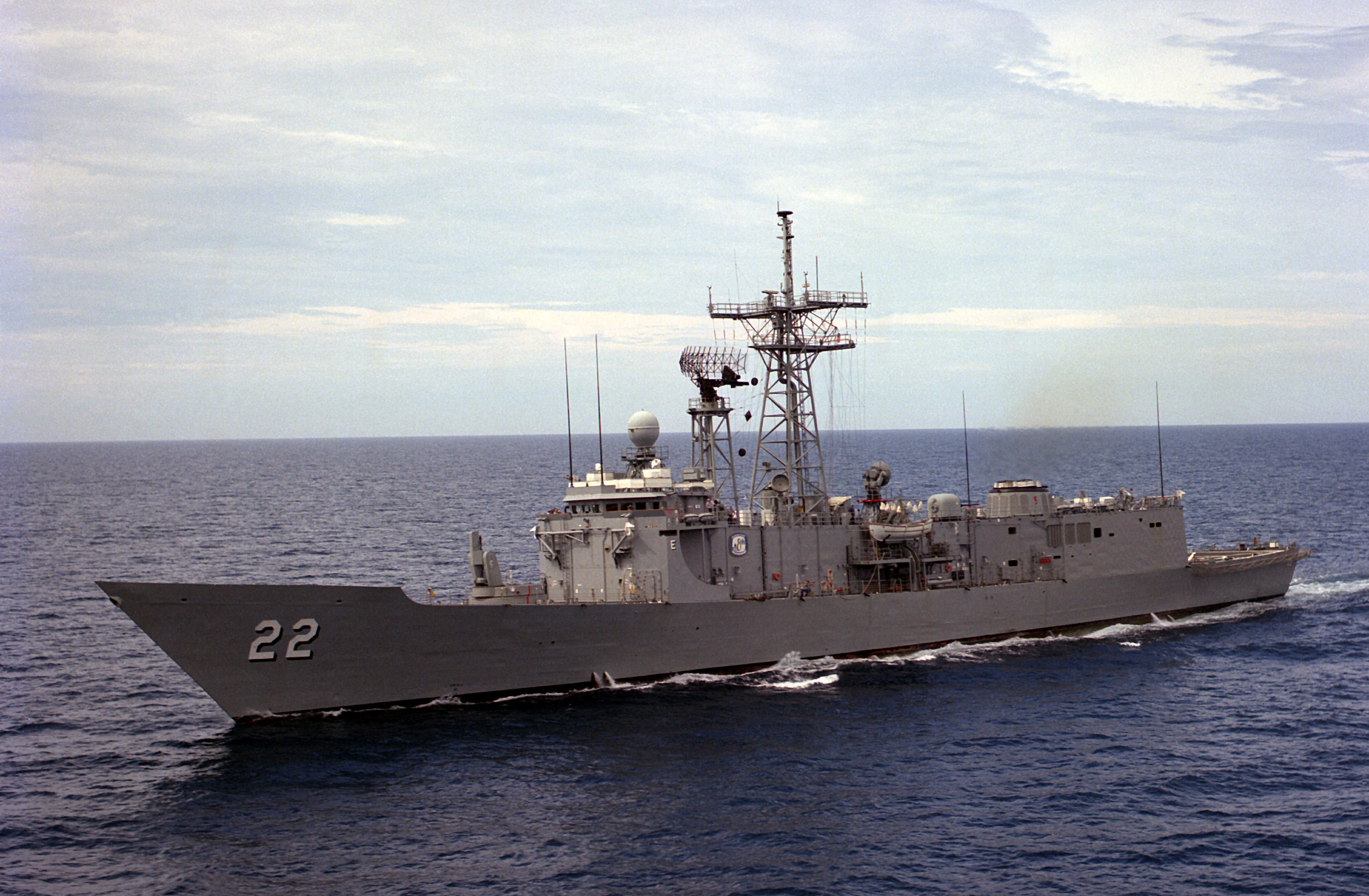 The U.S. Navy guided missile frigate USS Fahrion (FFG-22) underway off the Virginia Capes.